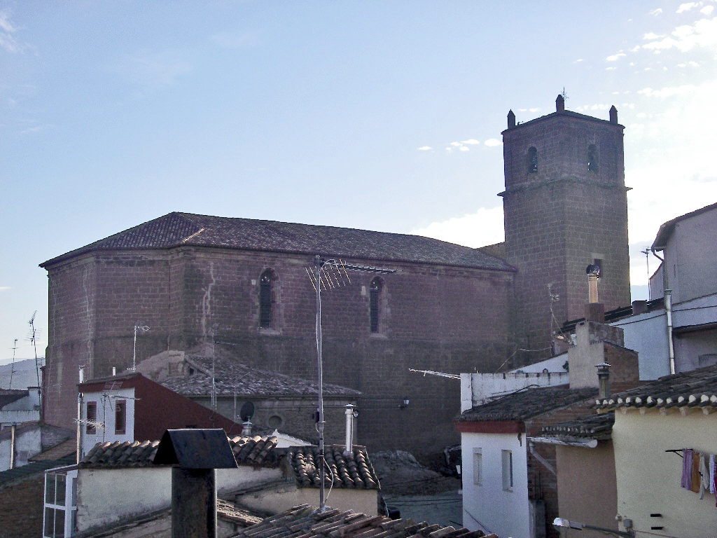 View of Saint Martin's Church in Entrena